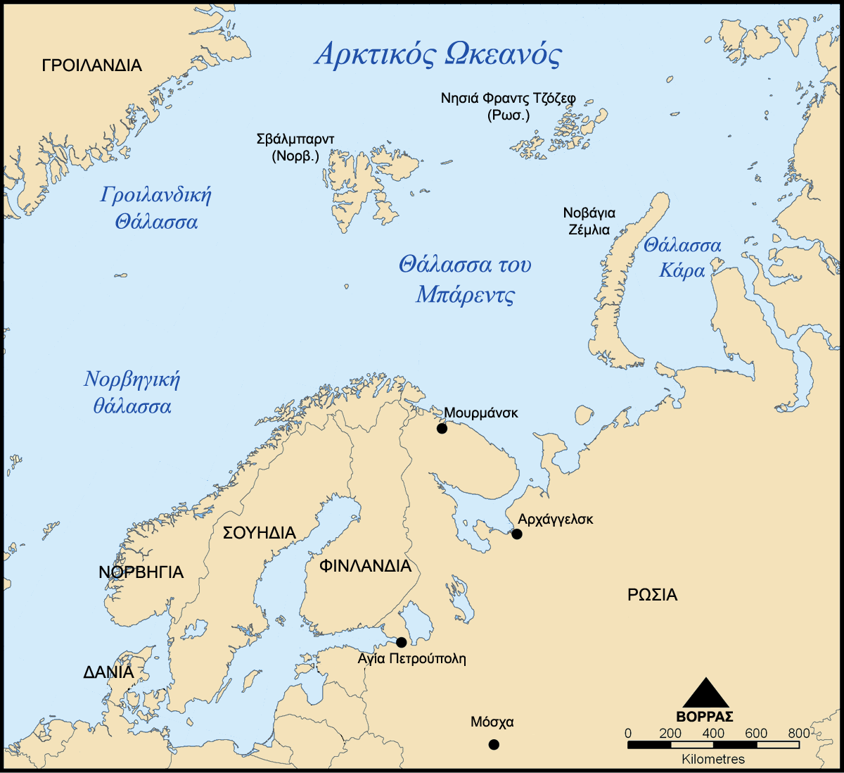 This map shows the location of the Barents Sea north of Russia and Norway, and the surrounding seas and islands.